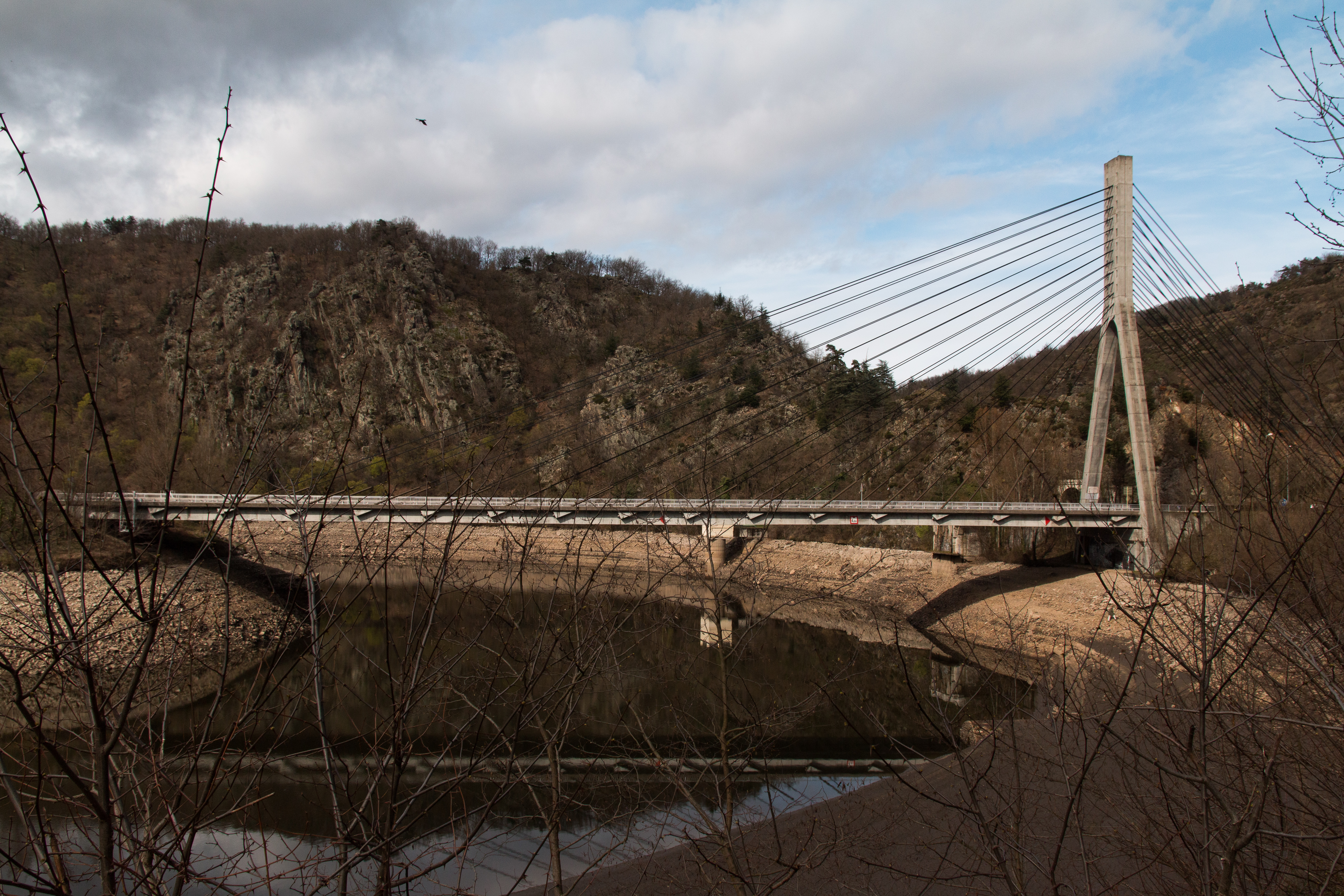 Bridge of the bicentenary of the Revolution.